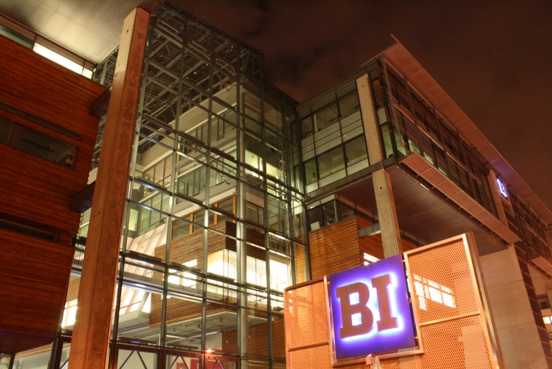 BI Norwegian School of Management, Campus Nydalen, Oslo, Norway.